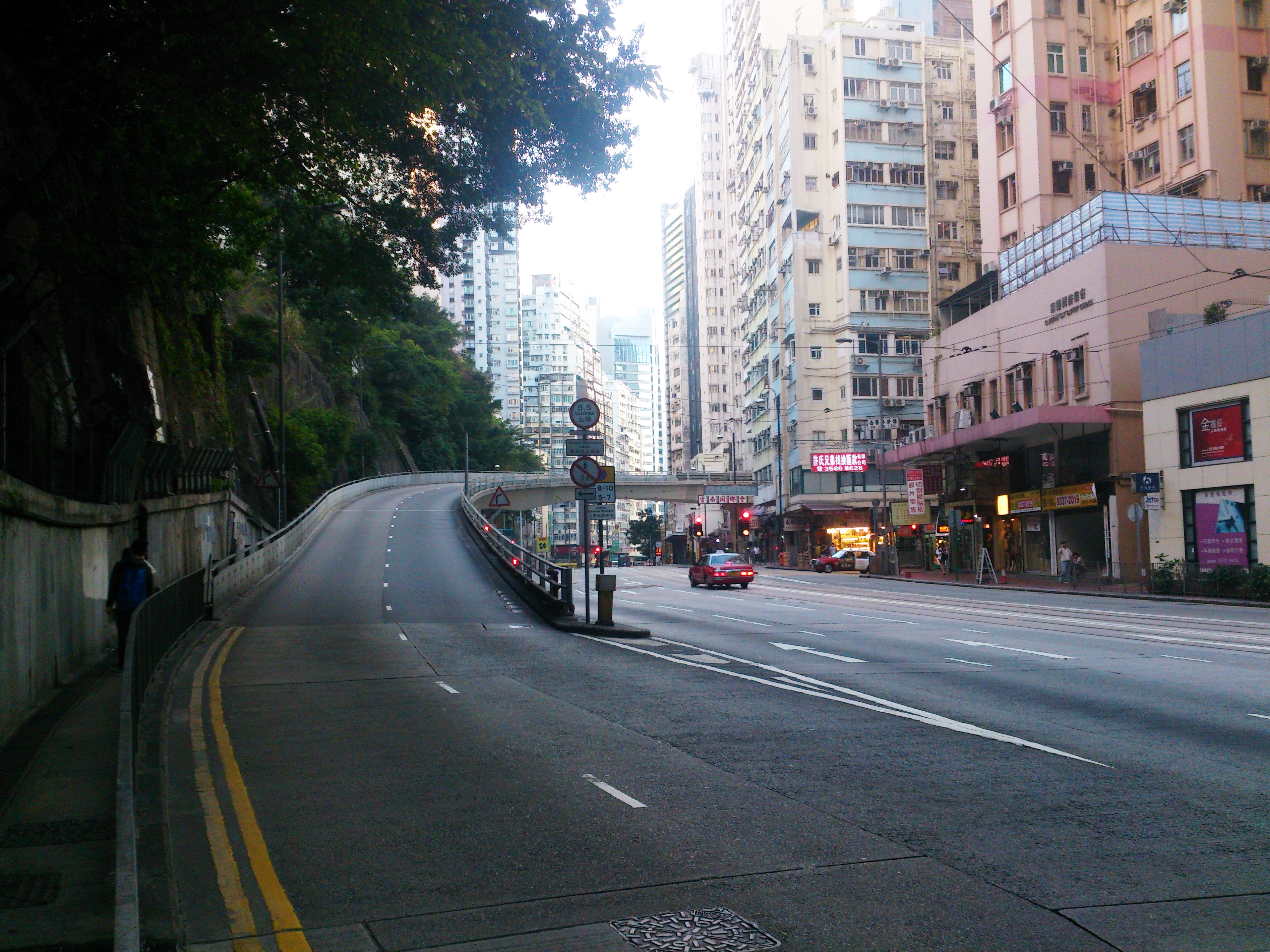 Entrance of Tsing Fung Street Flyover